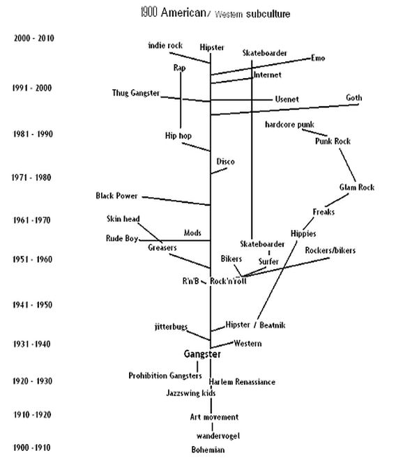 Western Culture Timeline